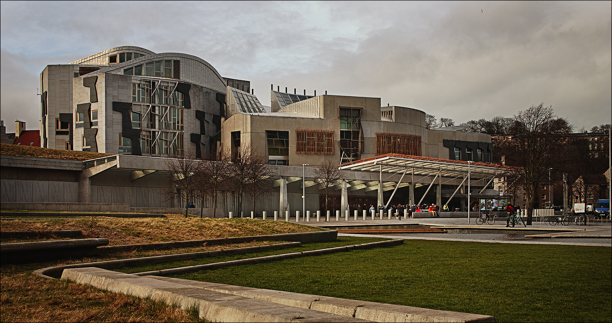 Holyrood, Edinburgh